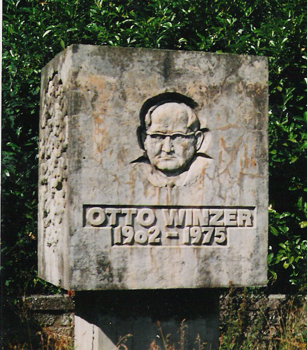 Het monument van Otto Winzer bij de voormalige officiersschool in Prora